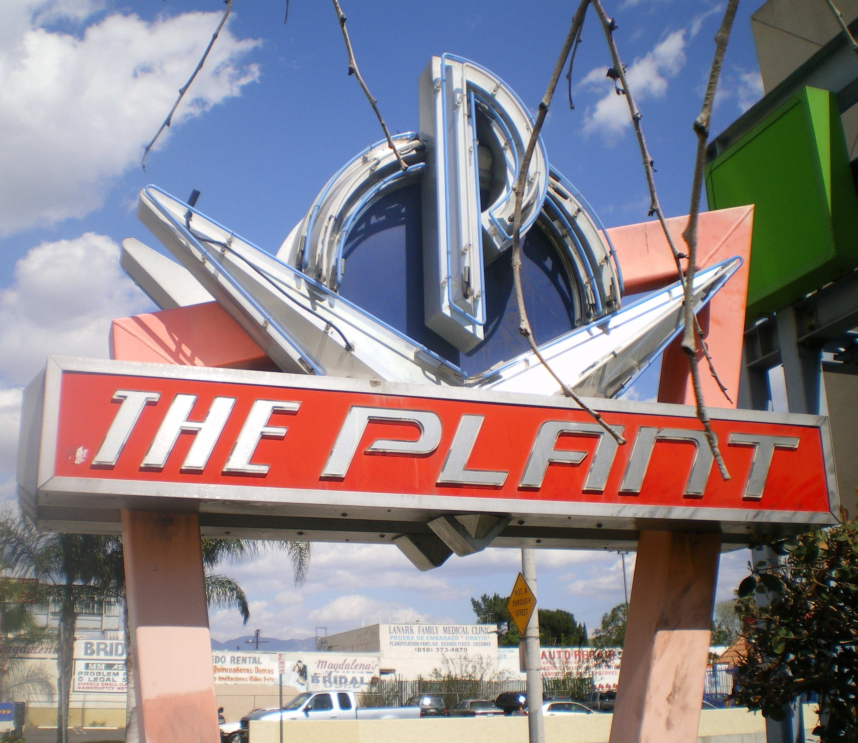 'The Plant' shopping center sign, in Van Nuys, the San Fernando Valley. Former GM auto assembly plant in Southern California.